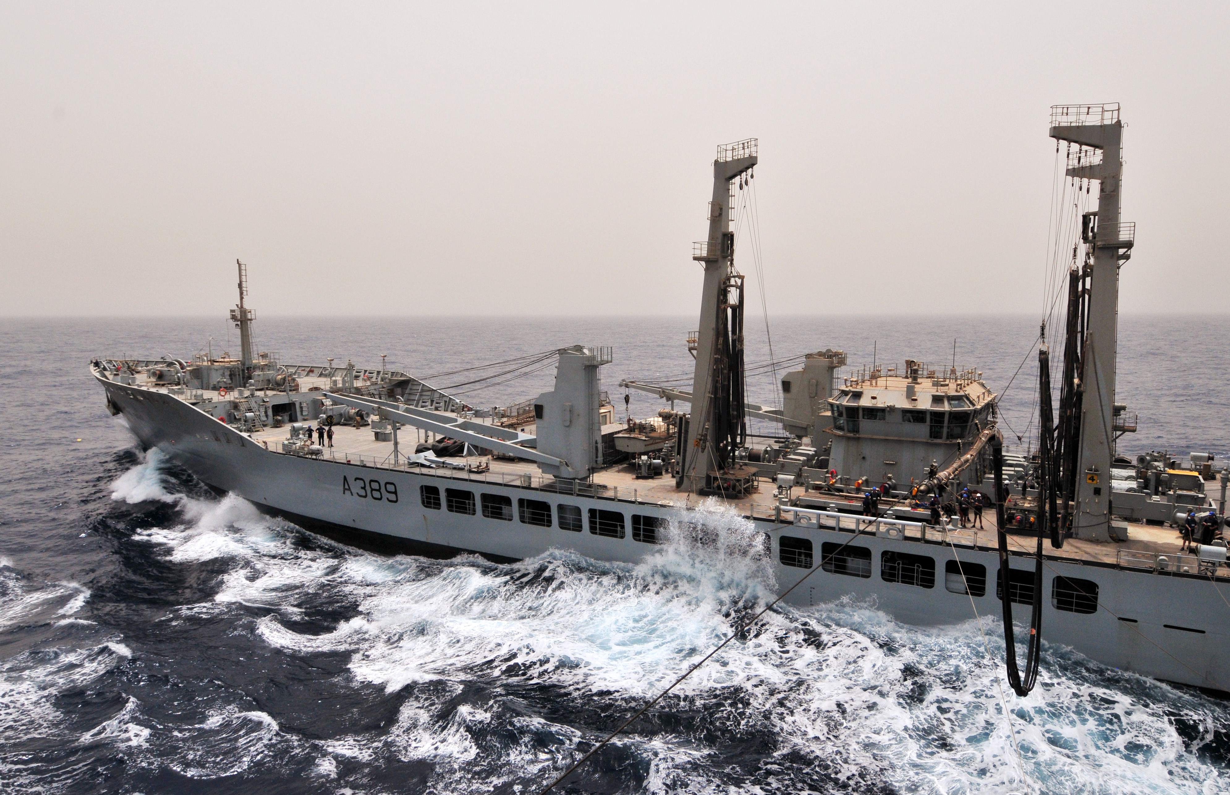 090716-N-9740S-036 U.S. 5TH FLEET AREA OF RESPONSIBILITY (July 17, 2009) The Royal Navy fleet auxiliary fast fleet tanker RFA Wave Knight (A-389) prepares to transfer fuel to the amphibious assault ship USS Bataan (LHD 5) during a replenishment at sea.